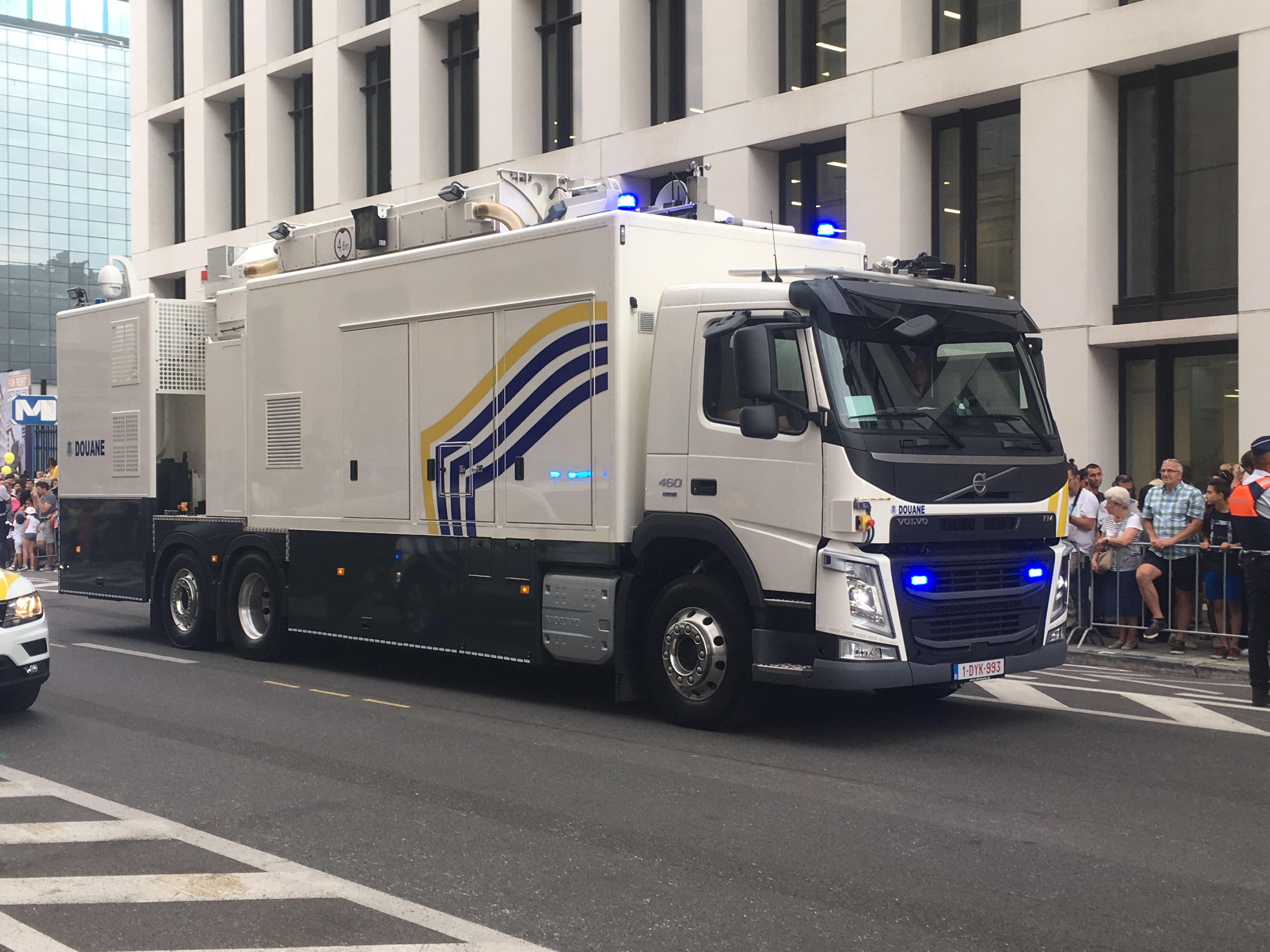 Mobile X-ray scanner of the Belgian General Administration Customs and Excise during the National Parade on July 21, 2018